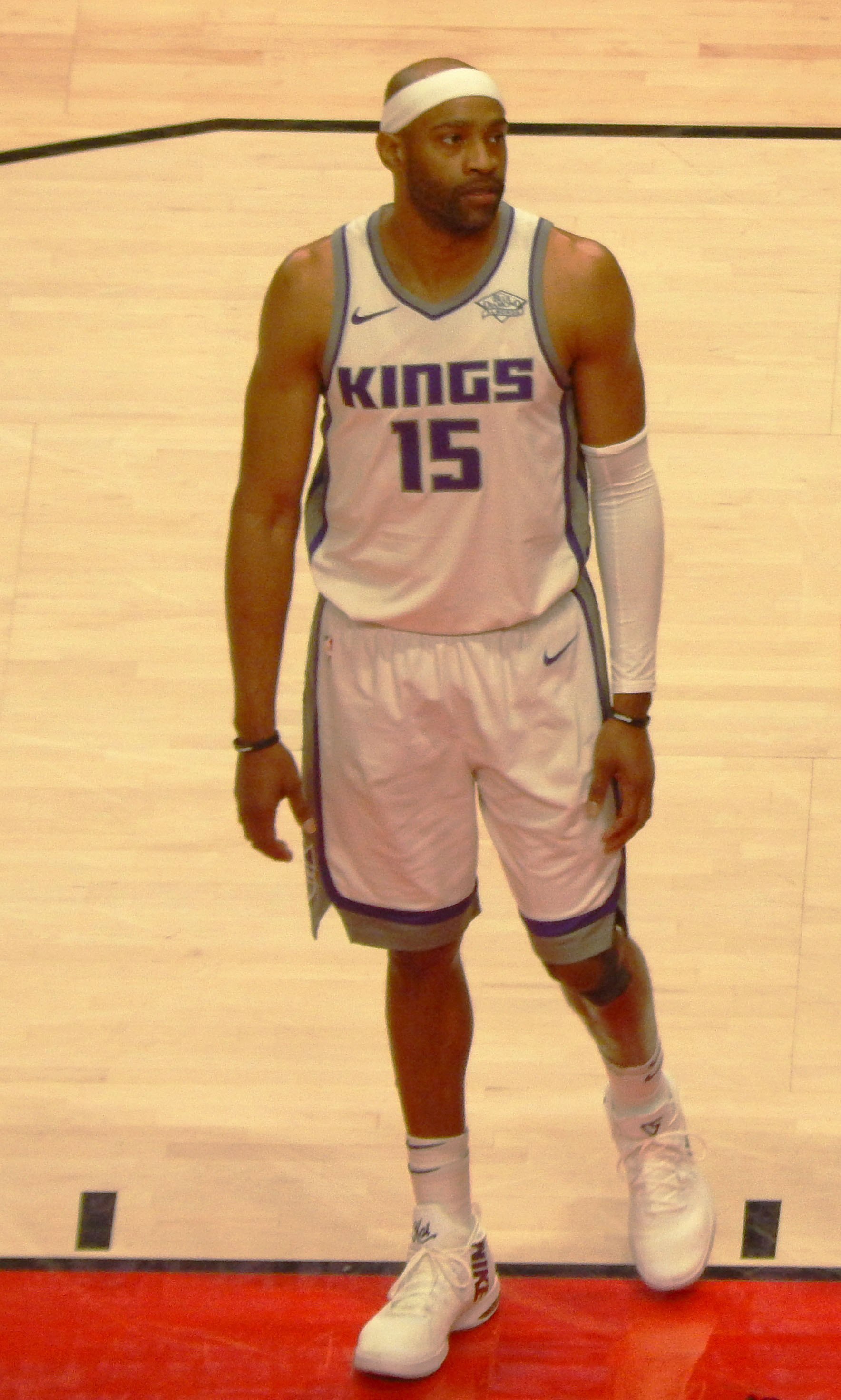 Vince Carter #15 of the Sacramento Kings against the Portland Trail Blazers on February 27, 2018 at Moda Center in Portland, Oregon.